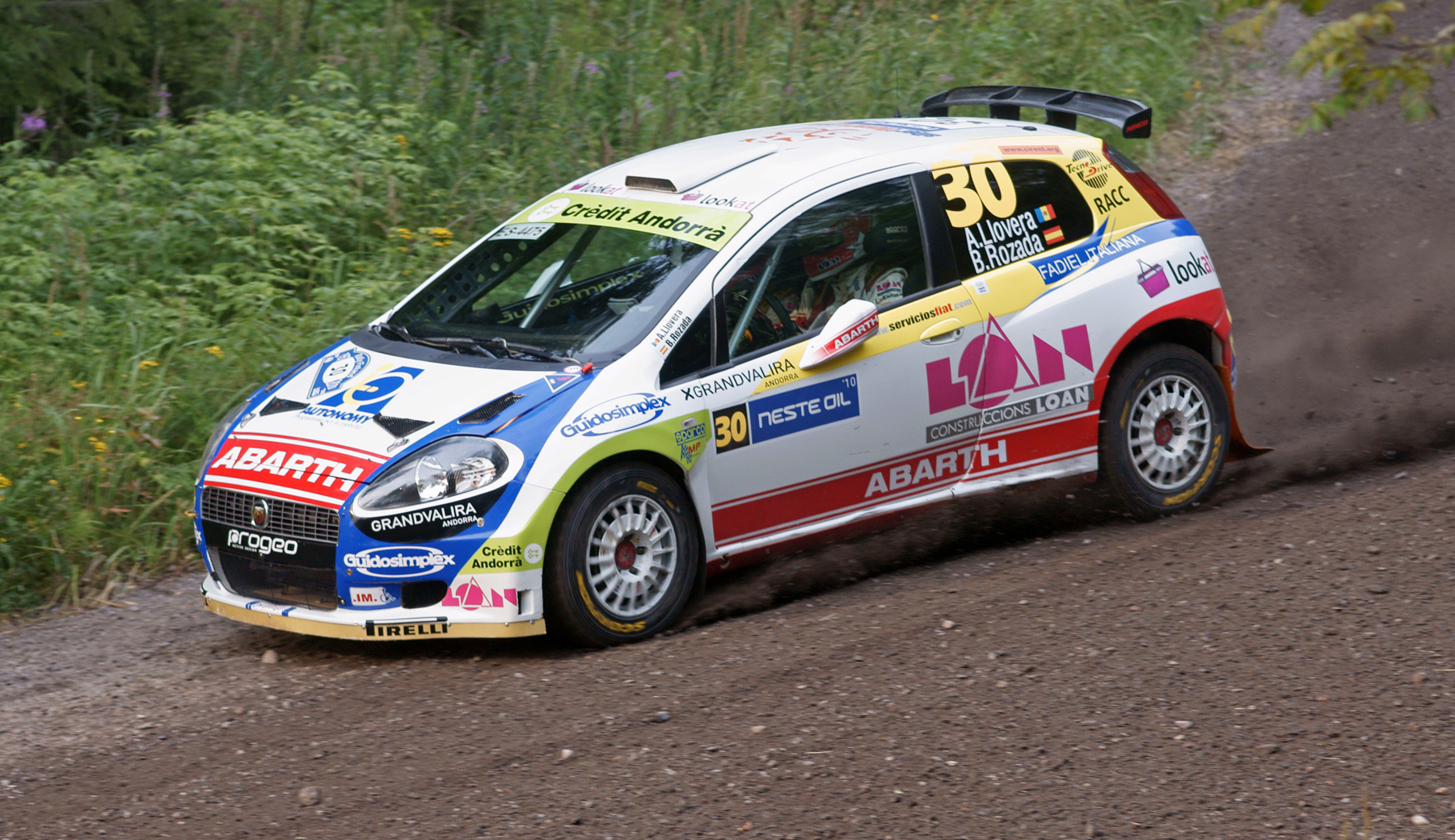 Albert Llovera driving at Laajavuori special stage, Rally Finland 2010.